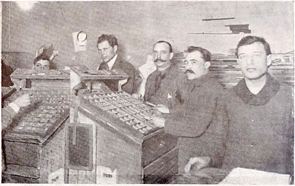 Ivan F. Saveliev, a former member of the First Russian Parliament in emigration in Paris,1913